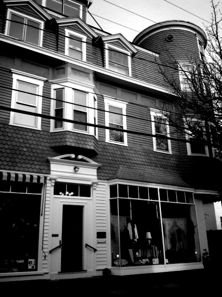 This is an exterior shot of the James Merrill House at 107 Water St. in Stonington Borough, CT.